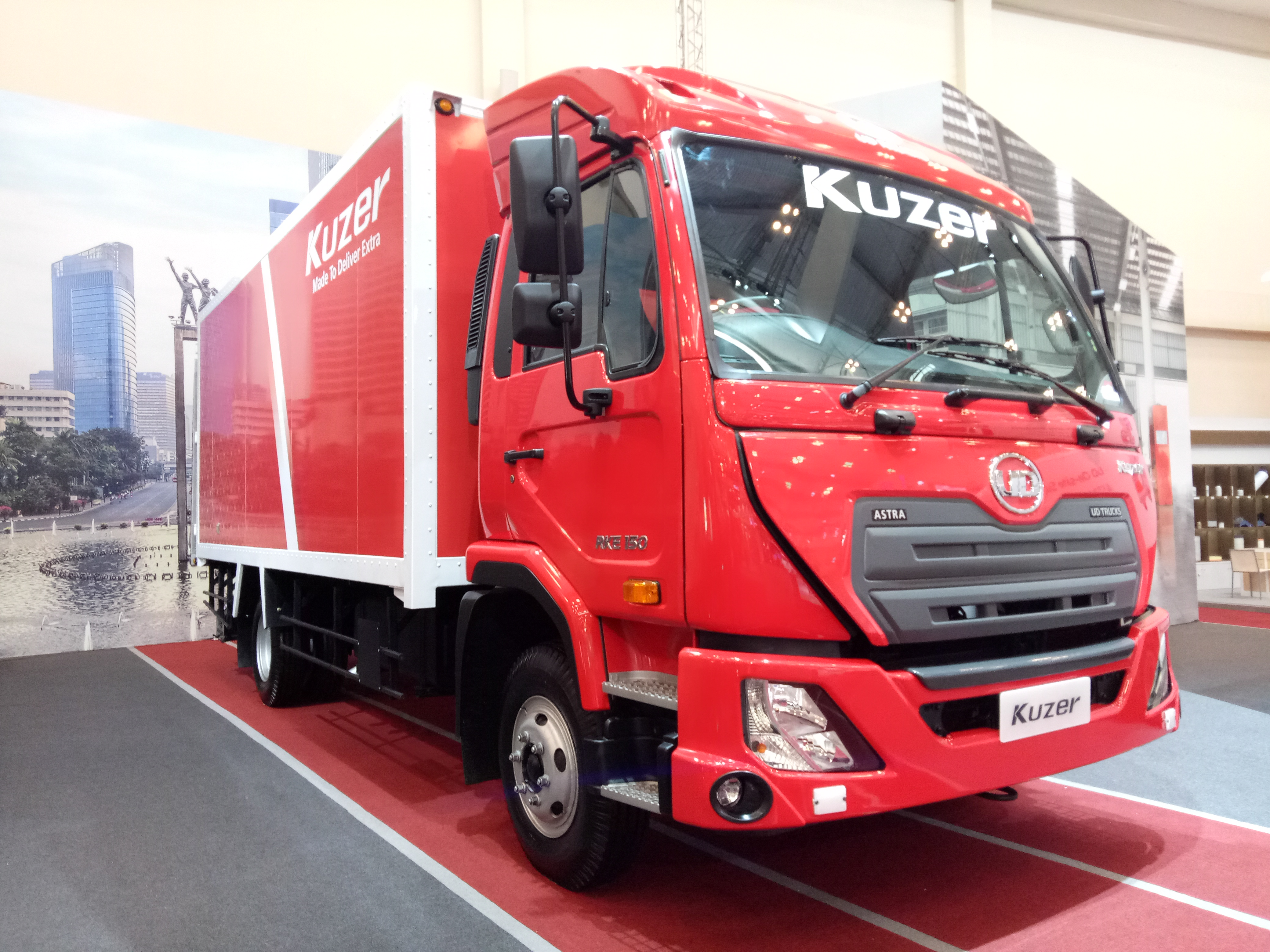 UD Kuzer